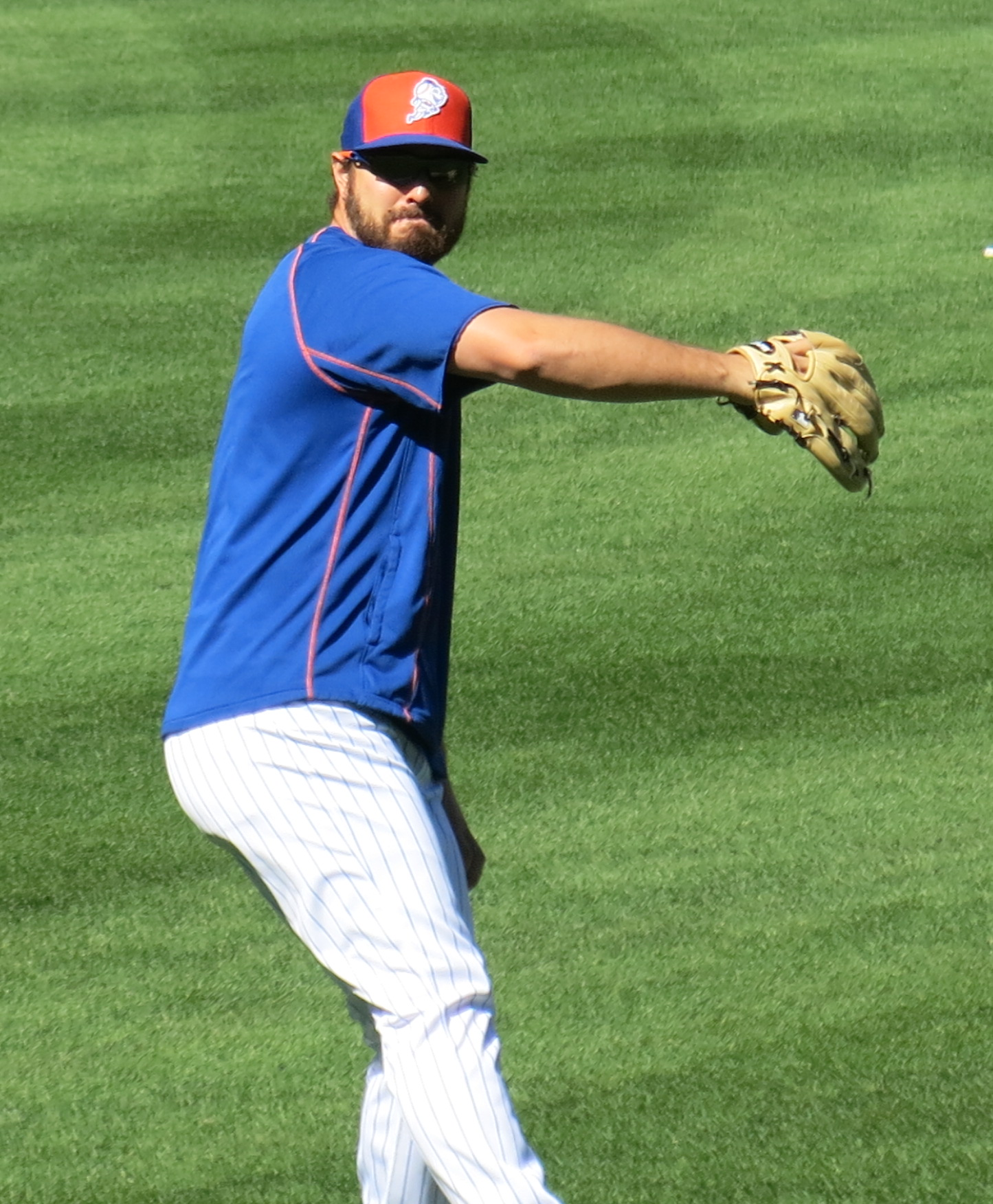 Josh Smoker of the New York Mets, September 25, 2016.